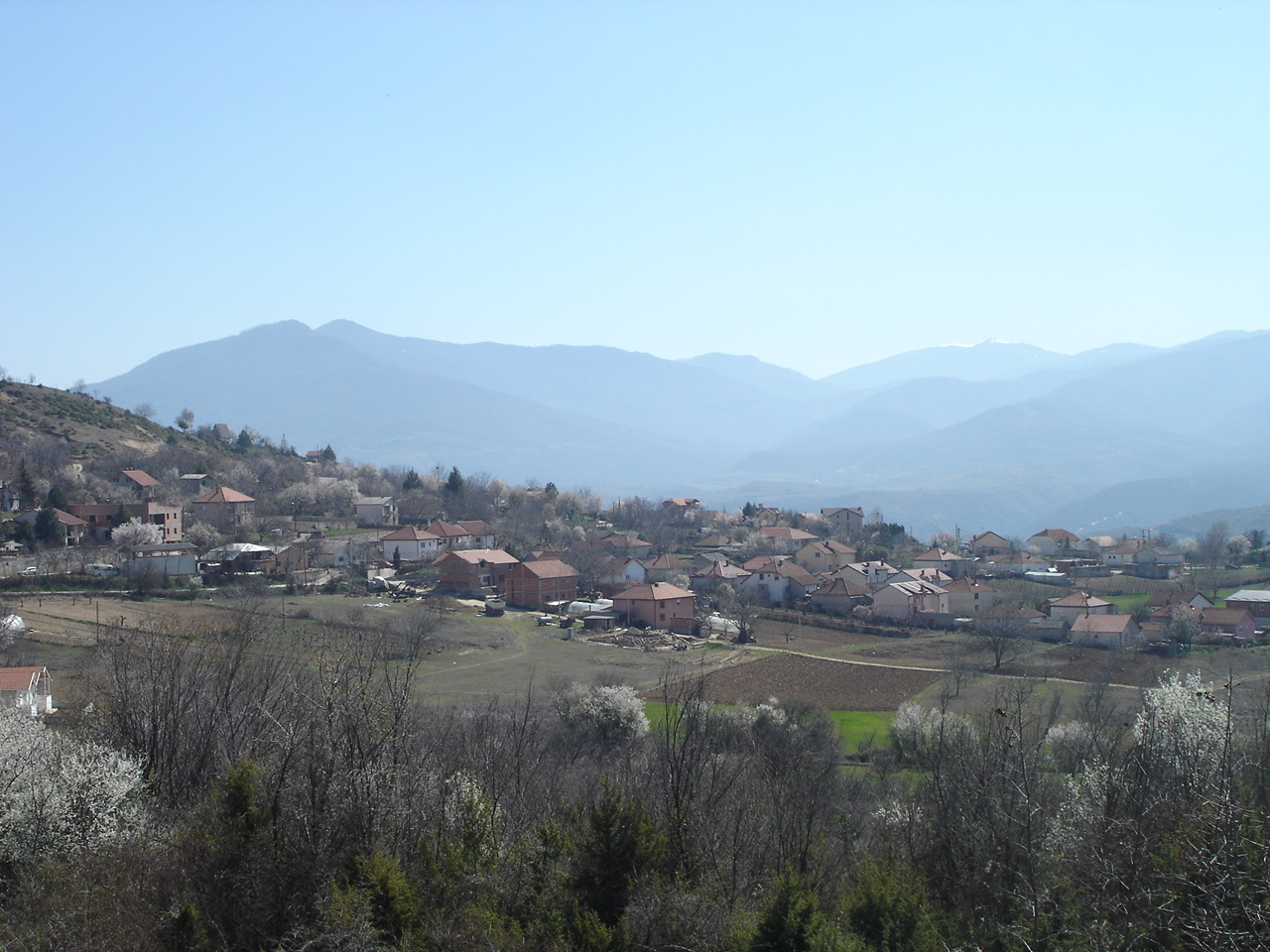 village of Rakotinci, Macedonia